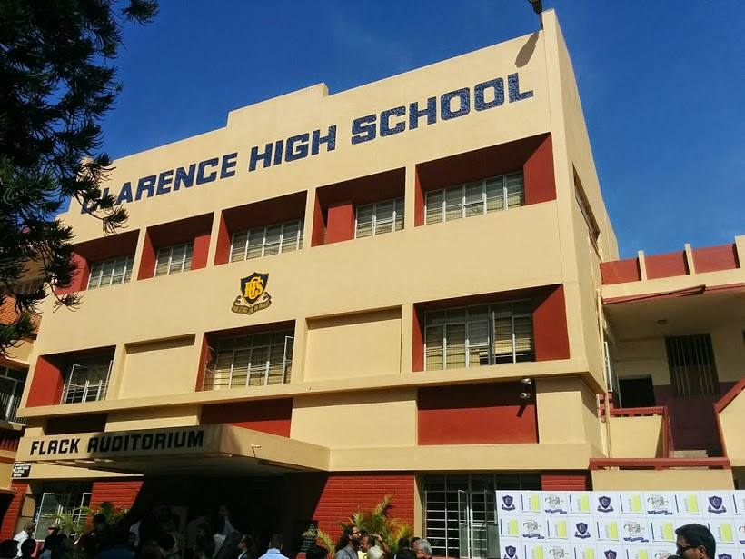 The Flack Auditorium entrance, adjacent to the Christmas Tree.